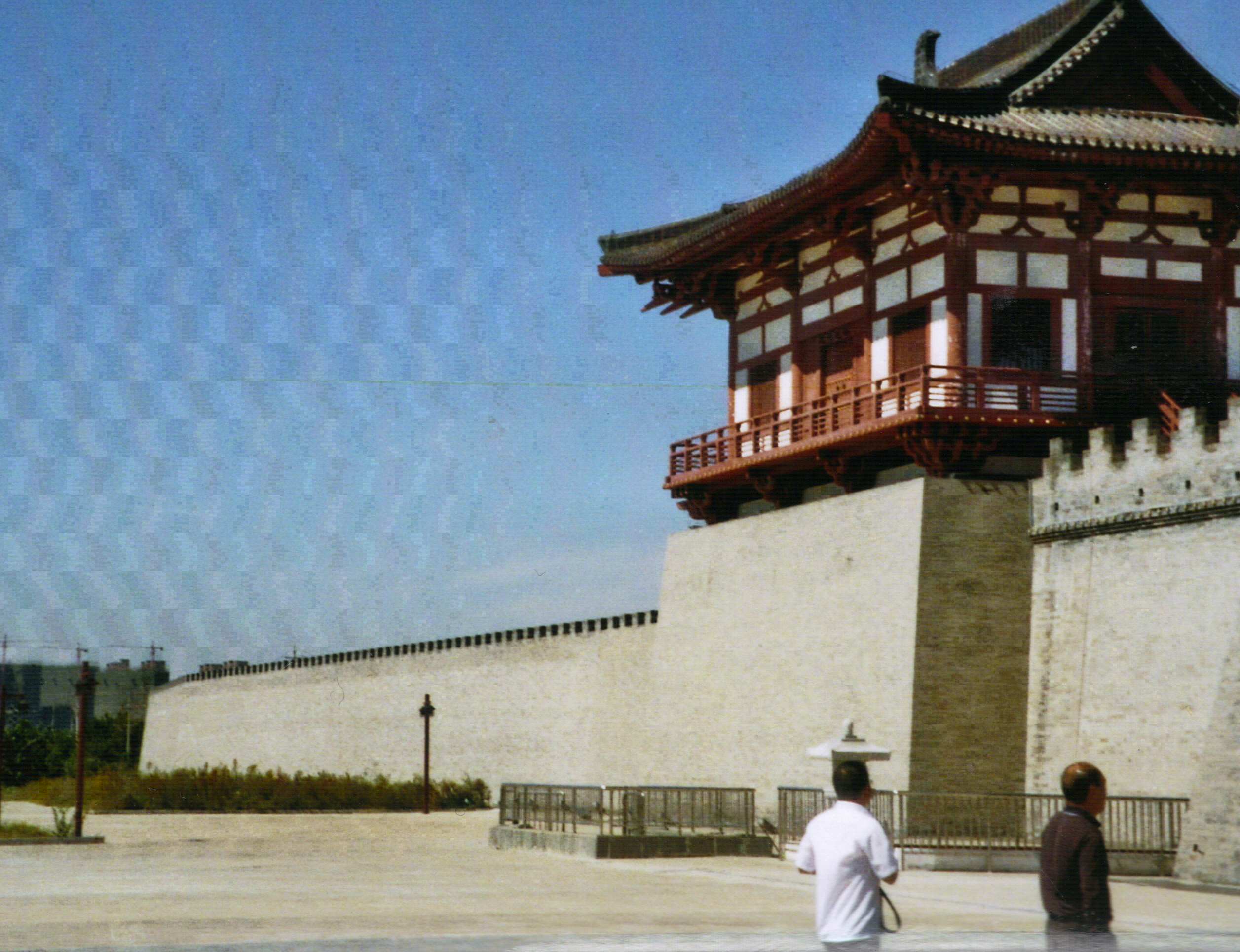 Reconstruction of city gate and part of city wall, Luoyang, China